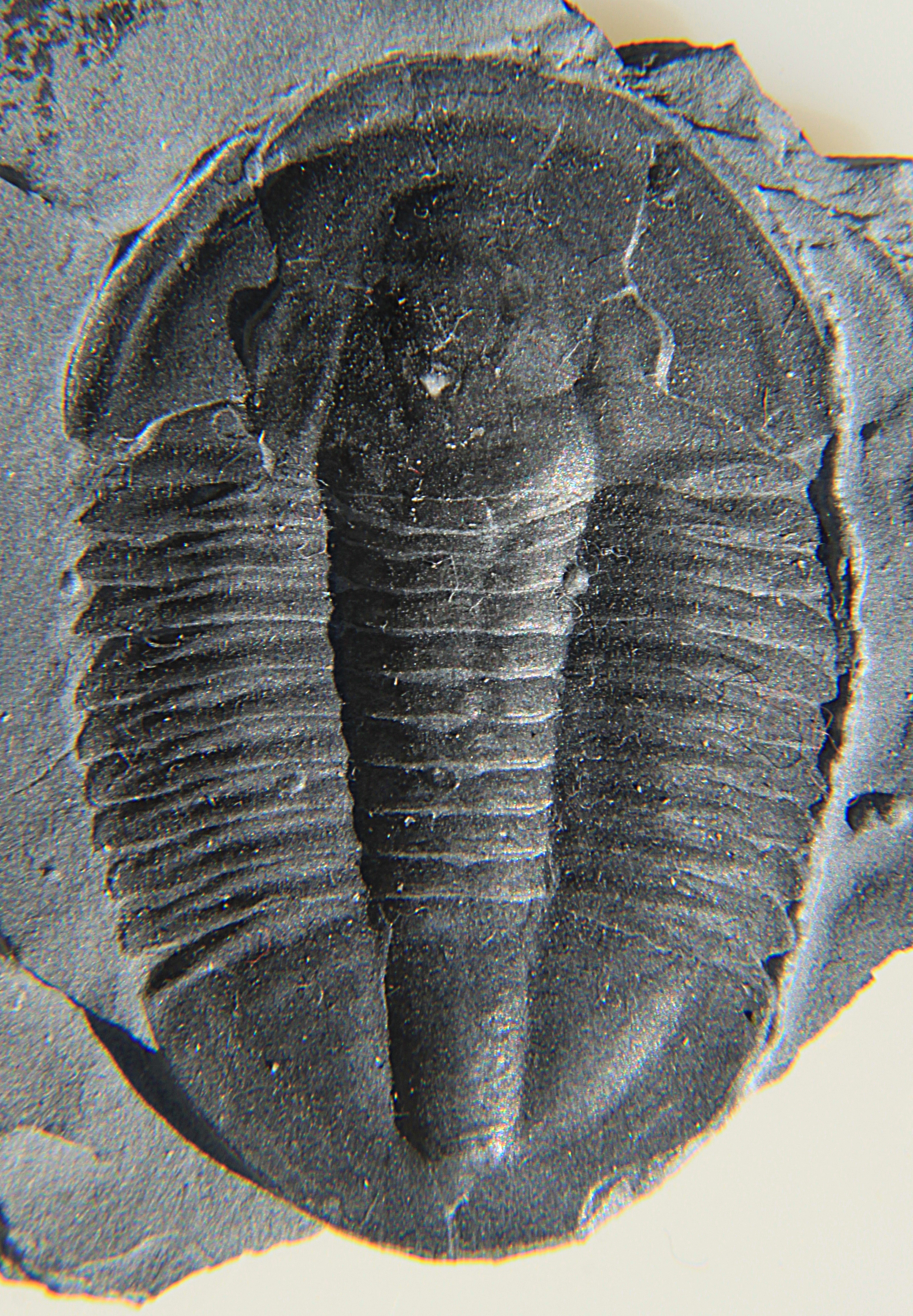 An Asaphiscus wheeleri trilobite, Order Ptychopariida, Family Asaphiscidae, 37mm measured along the axis, Collected from the Wheeler Formation, Millard County, Utah, USA, from the Middle Cambrian (Drumian)